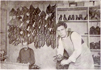 Fedot M. Onipko, a former member of the First Russian Parliament in emigration in Paris,1913